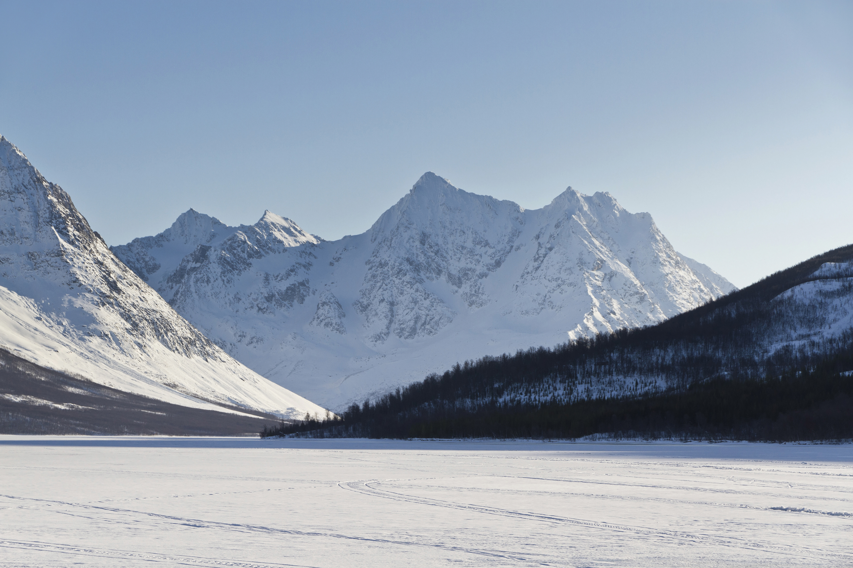 Isskardtindane as seen from the north. The photograph site took place in the northwest side of Jægervatnet in 2012 March.